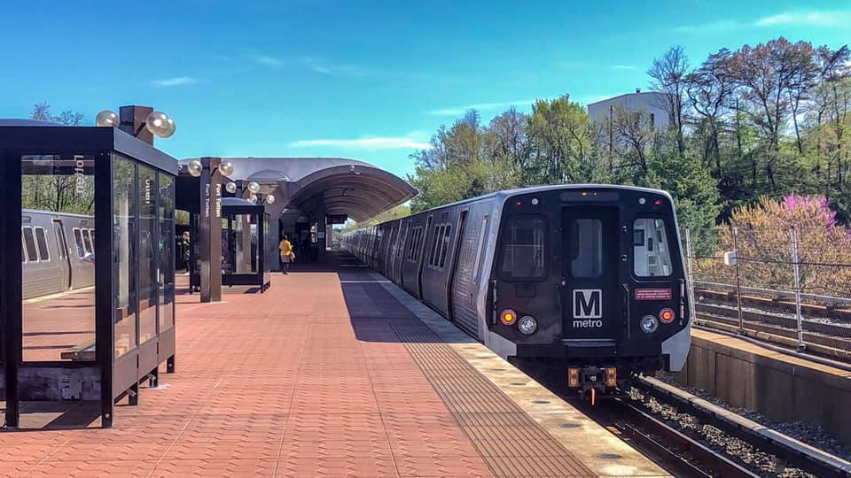 WMATA Kawaski 7000 Series On The Red Line At Fort Totten